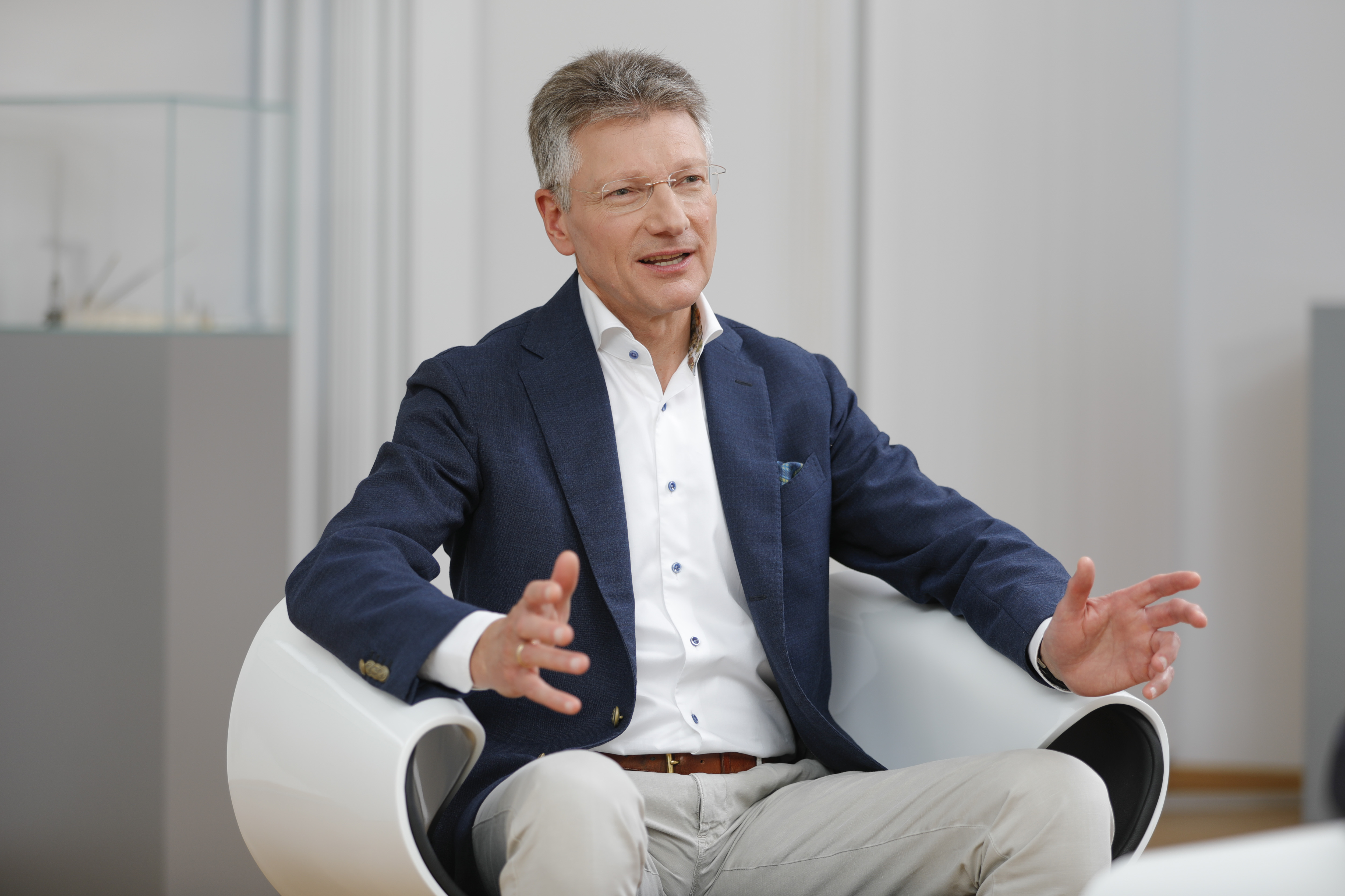 Dr. Elmar Degenhart , Continental AG, Hannover, Germany , Chairman of the Executive Board